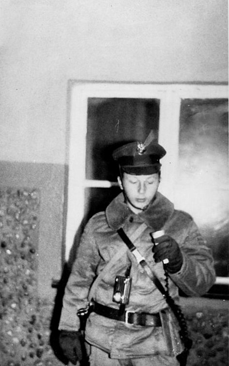 Border Protection Forces in Bielawa Dolna